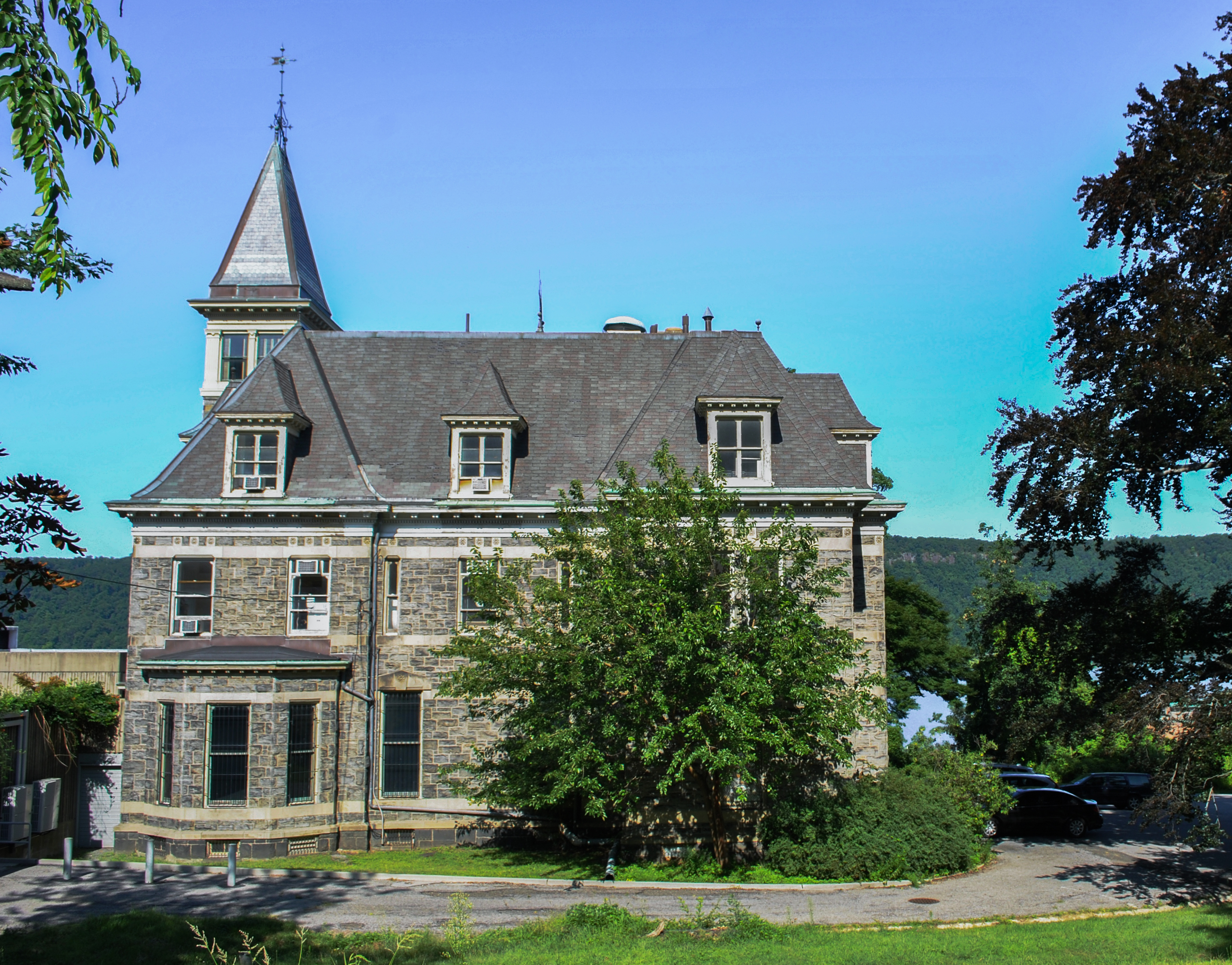 Historic house museums in New York